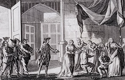 Woodes Rogers' men search Spanish ladies for their jewels as they raid Guayaquil in what is now Ecuador; held at the National Maritime Museum, Greenwich